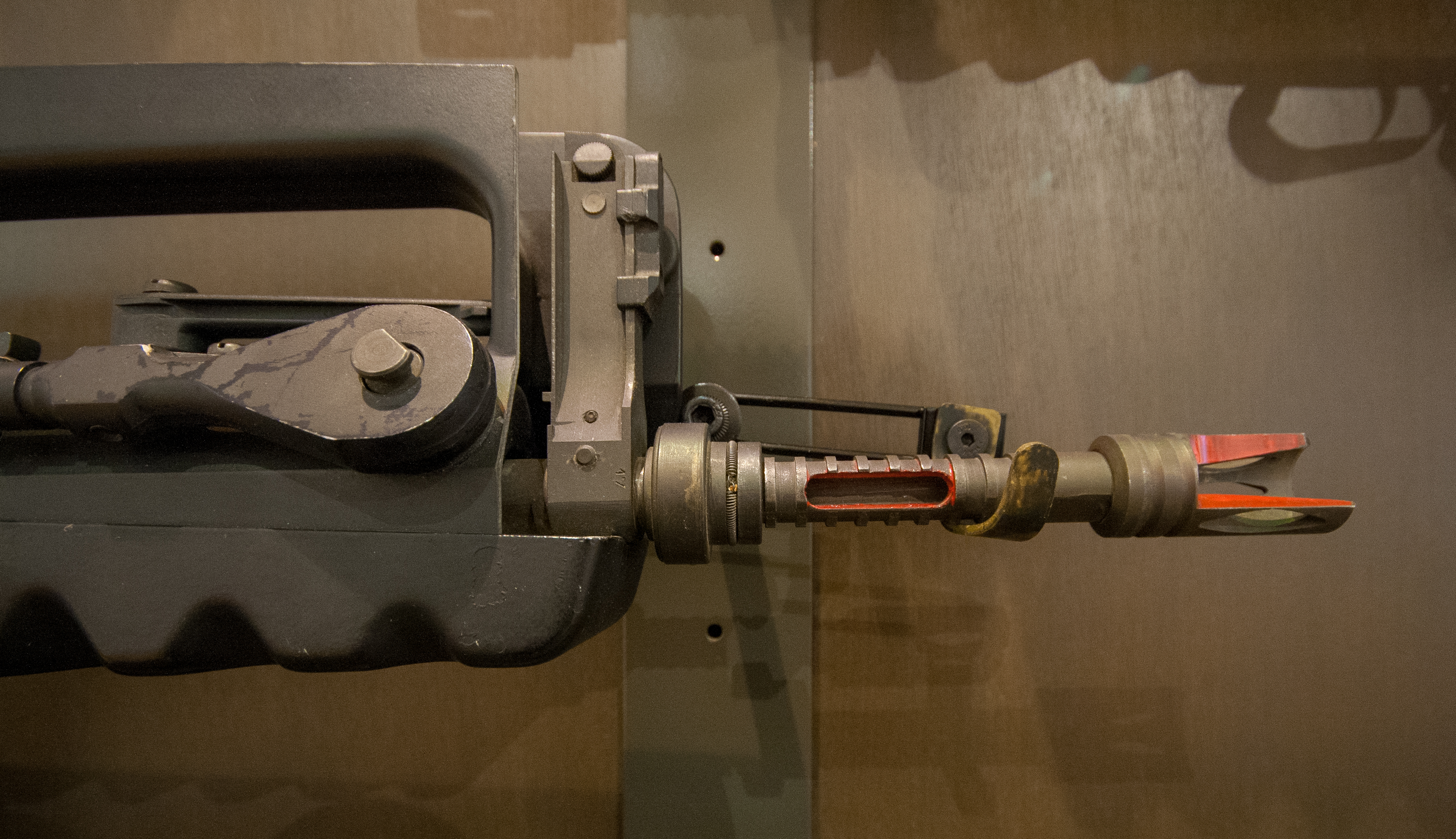 Assault riffle of the Manufacture d'Armes de Saint-Étienne (FAMAS). Weapons Department in the Museum of Art and Industry in Saint-Étienne, France.